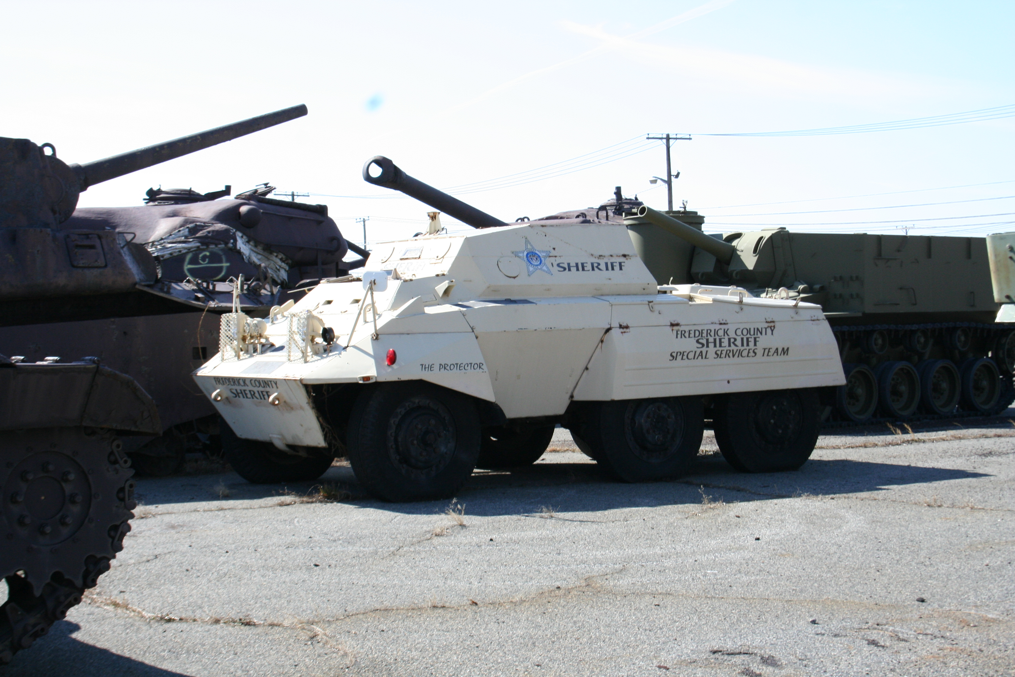 M20 formerly used by the Frederick County Maryland Sheriffs Office